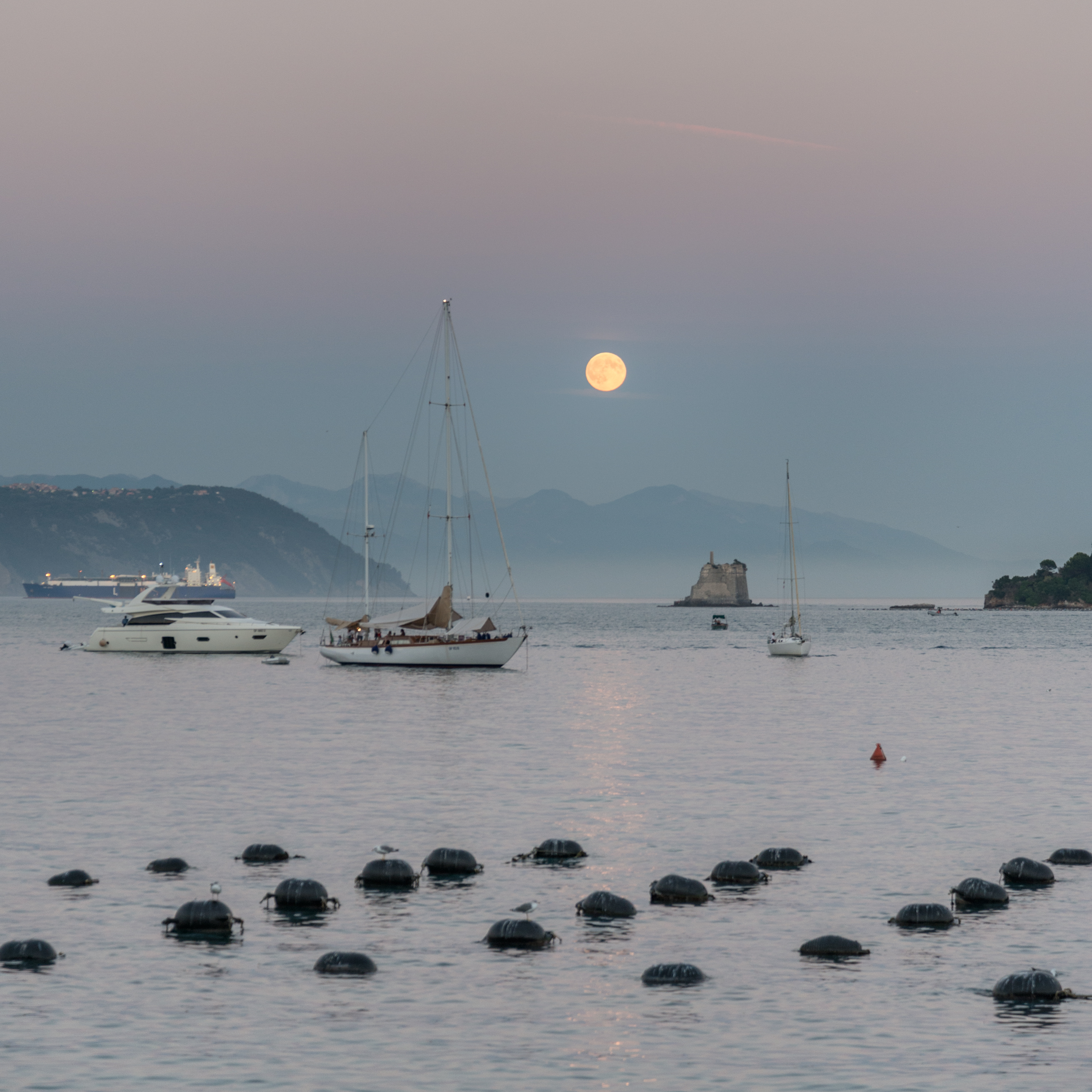 Moonrise - Portovenere, La Spezia, Italy